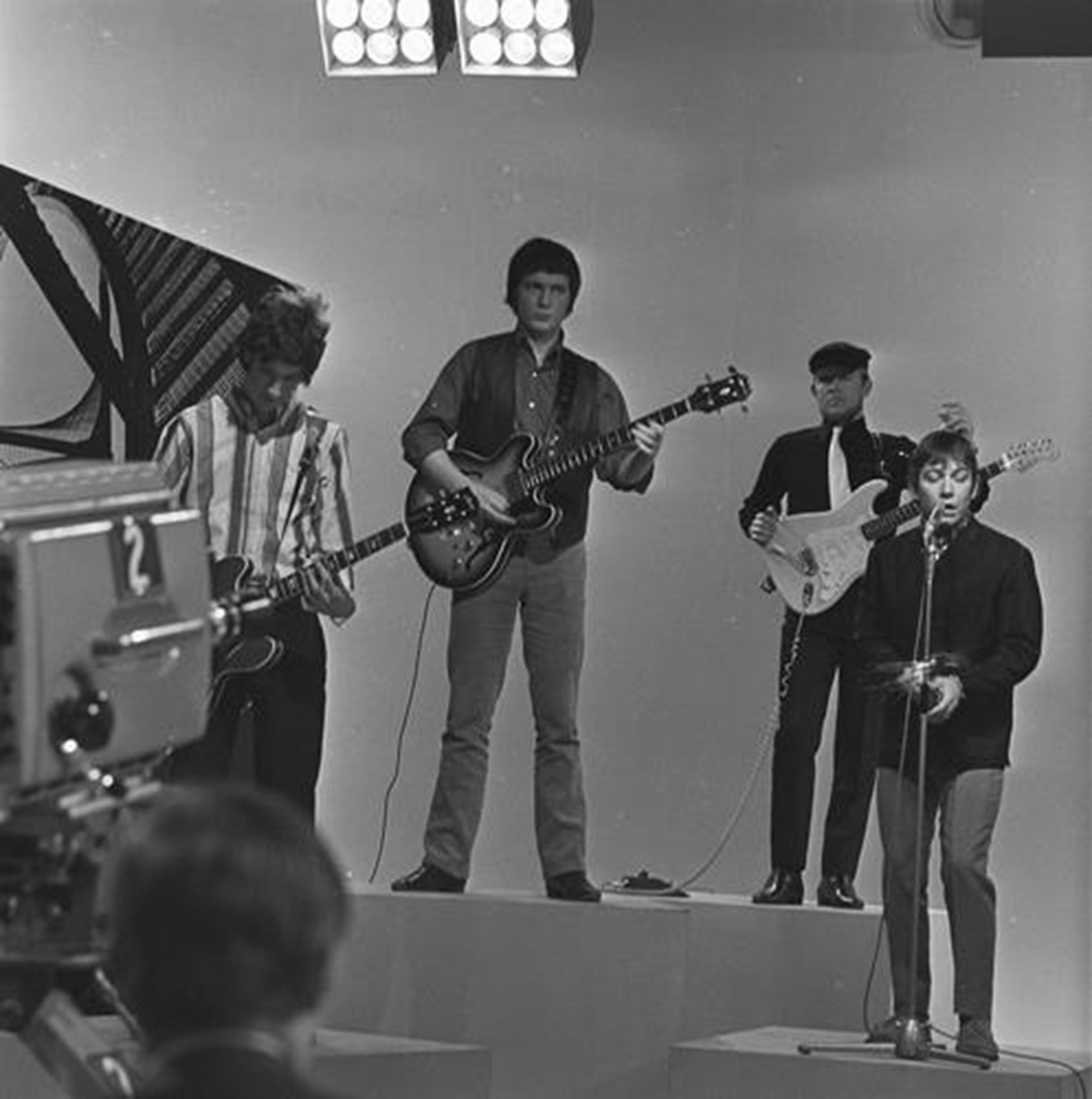 Eric Burdon & The Animals performing the songs "Hey Gyp" and "See see rider" in the Dutch TV programme Fanclub. Recorded 7 January 1967, broadcast 13 January 1967